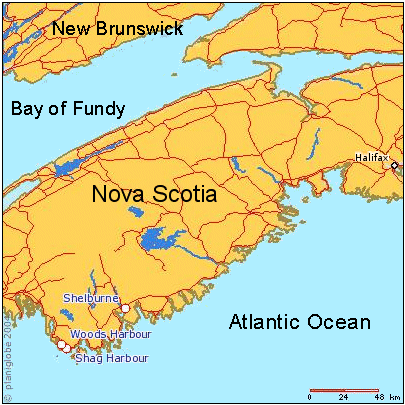 Map of southern Nova Scotia, Canada, showing location of Shag Harbour, N.S. and other locations involved in the 1967 Shag Harbour UFO incident.